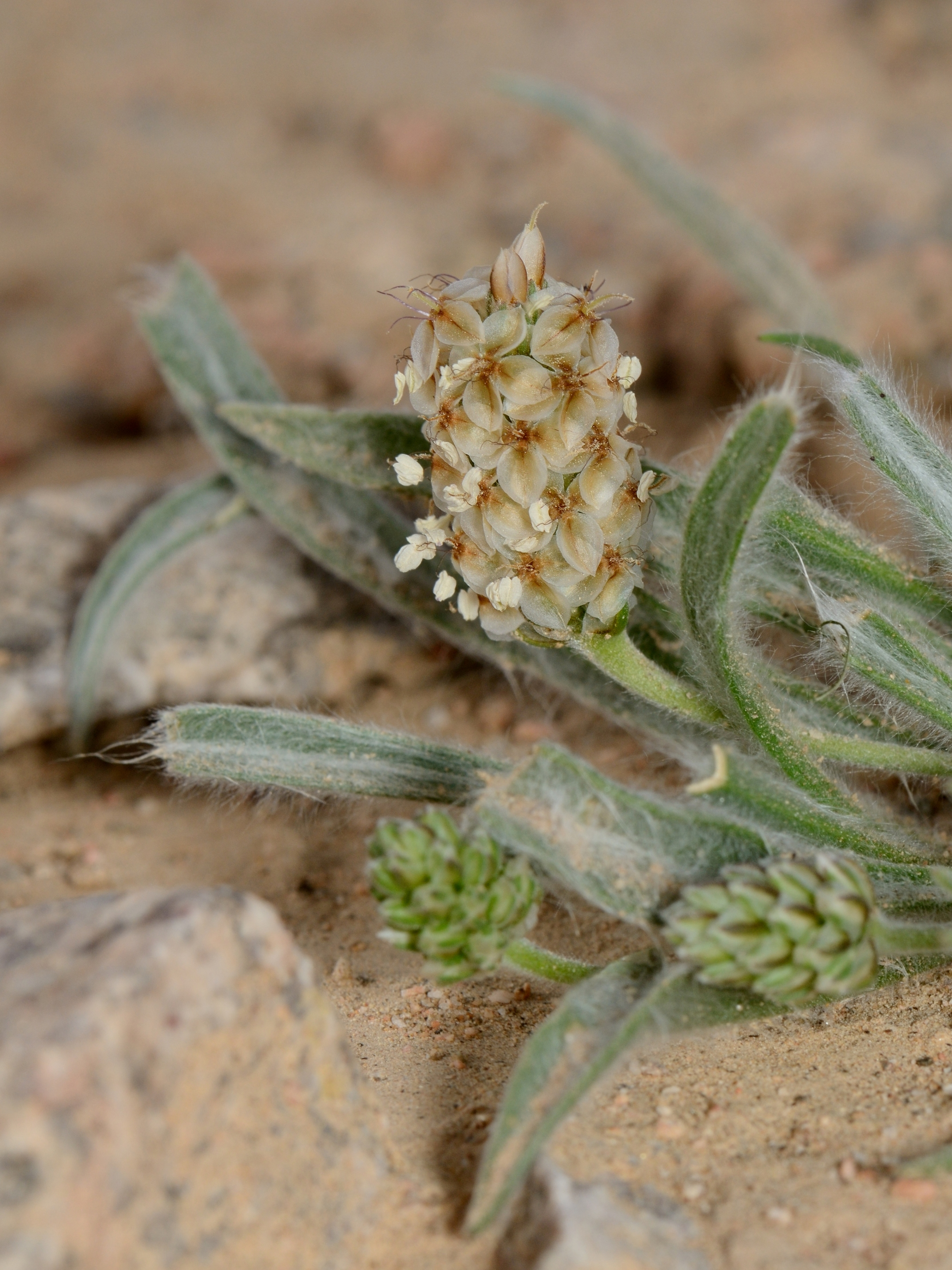 Plantago ovata Forssk., Eilat, Israel, January 17, 2013.